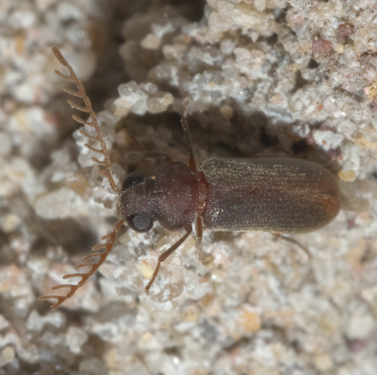 Euceratocerus gibbifrons, Subfamily: Death-watch Beetles, ID Confidence: 98